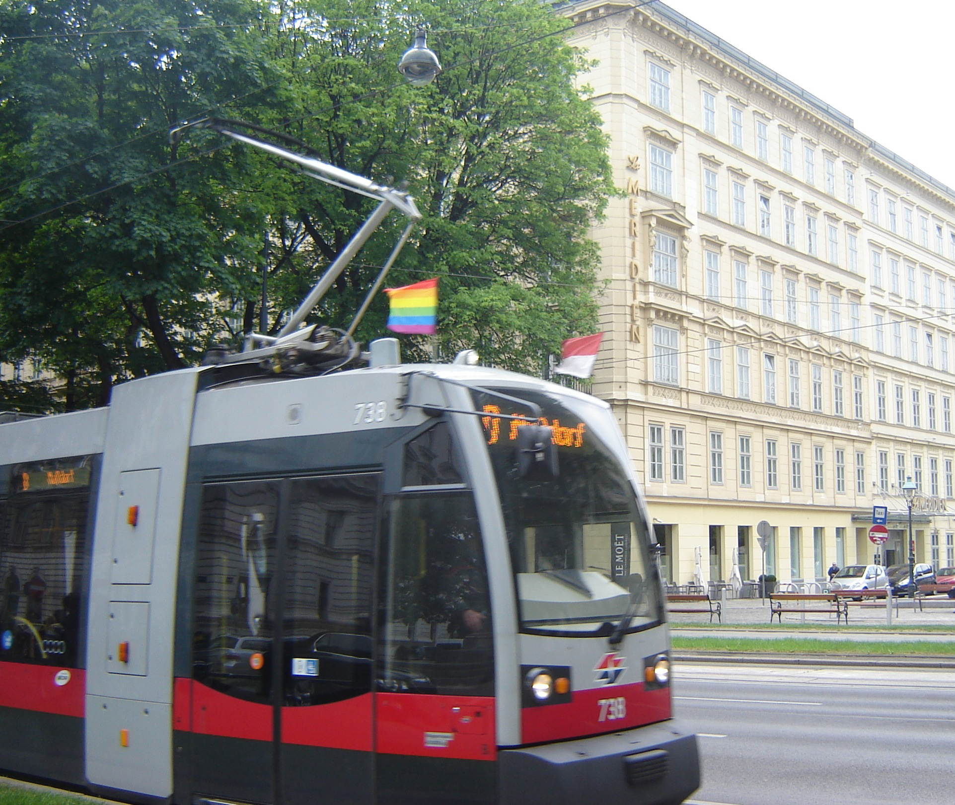 Viennese tram decorated with the rainbow flag in the weeks before the local pride parade.